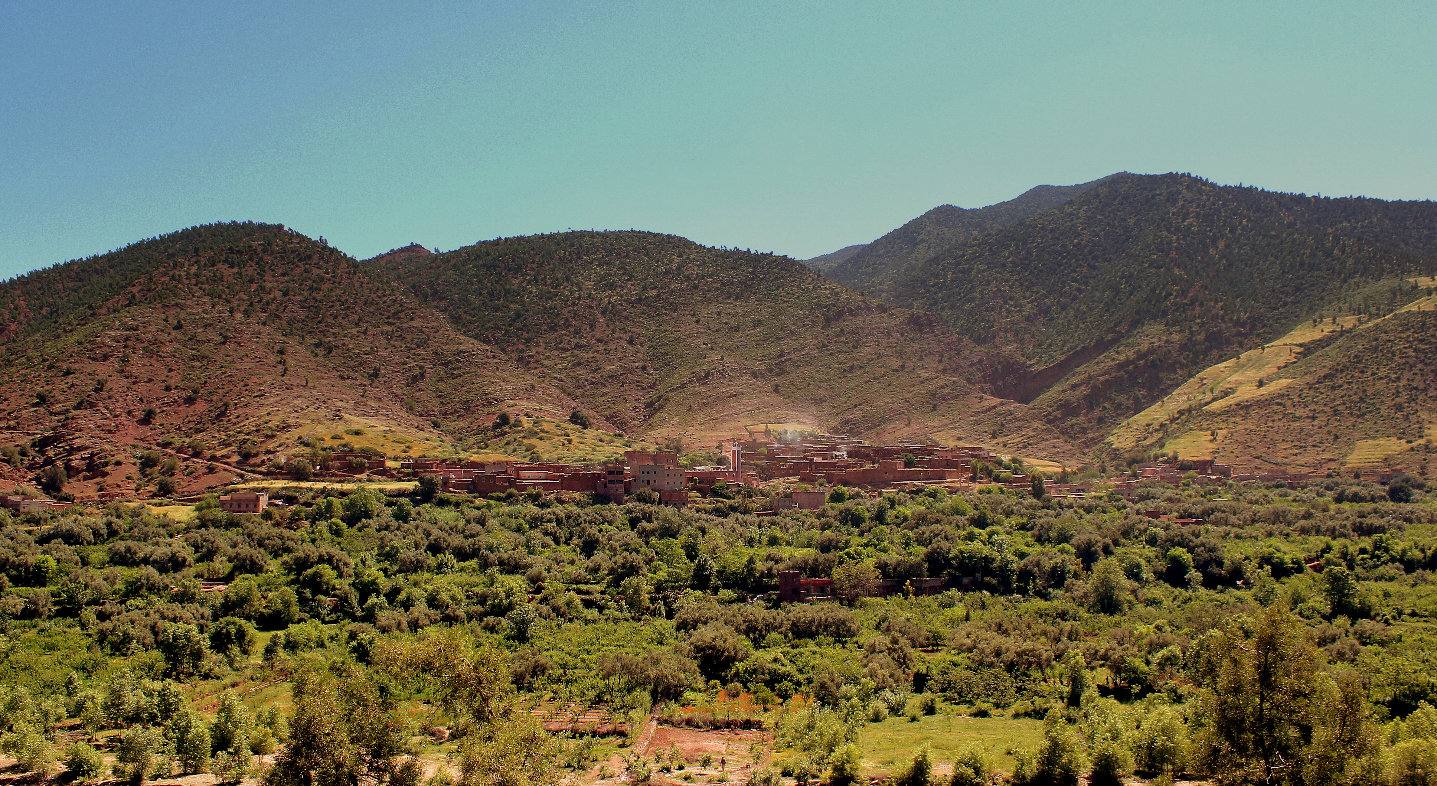 ATLAS MOUNTAINS MOROCCO APRIL 2013